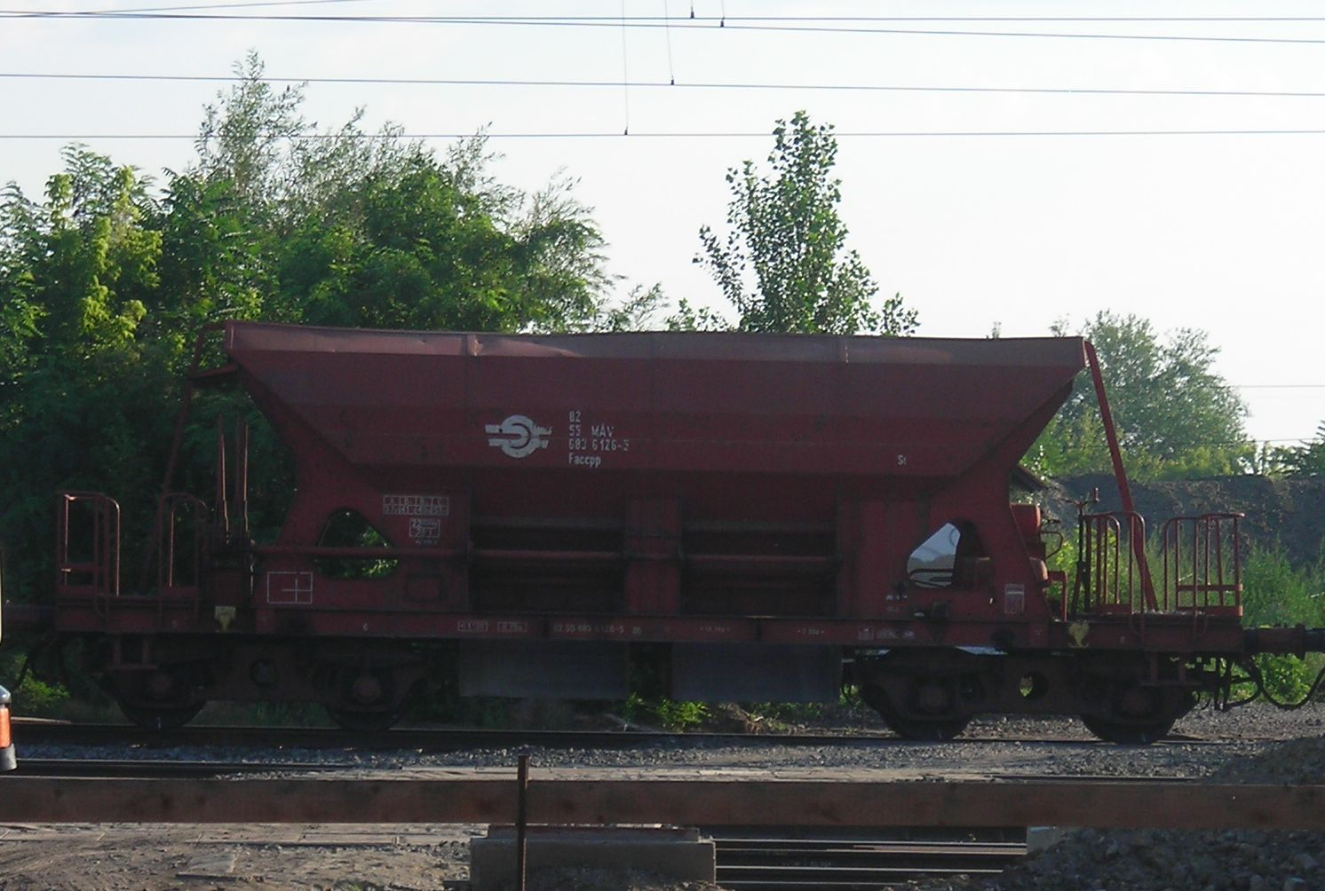 Class Faccpp railcar of the MÁV in Cegléd